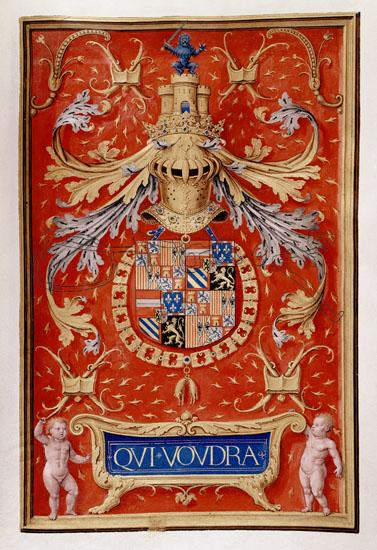 44526 AD MADRID INSTITUTO VALENCIA DE DON JUAN-COLECCION LIBRO DEL TOISON - EMBLEMA DE FELIPE EL HERMOSO - MANUSCRITO SIGLO XVI Obra de BENING SIMON 1483-1561